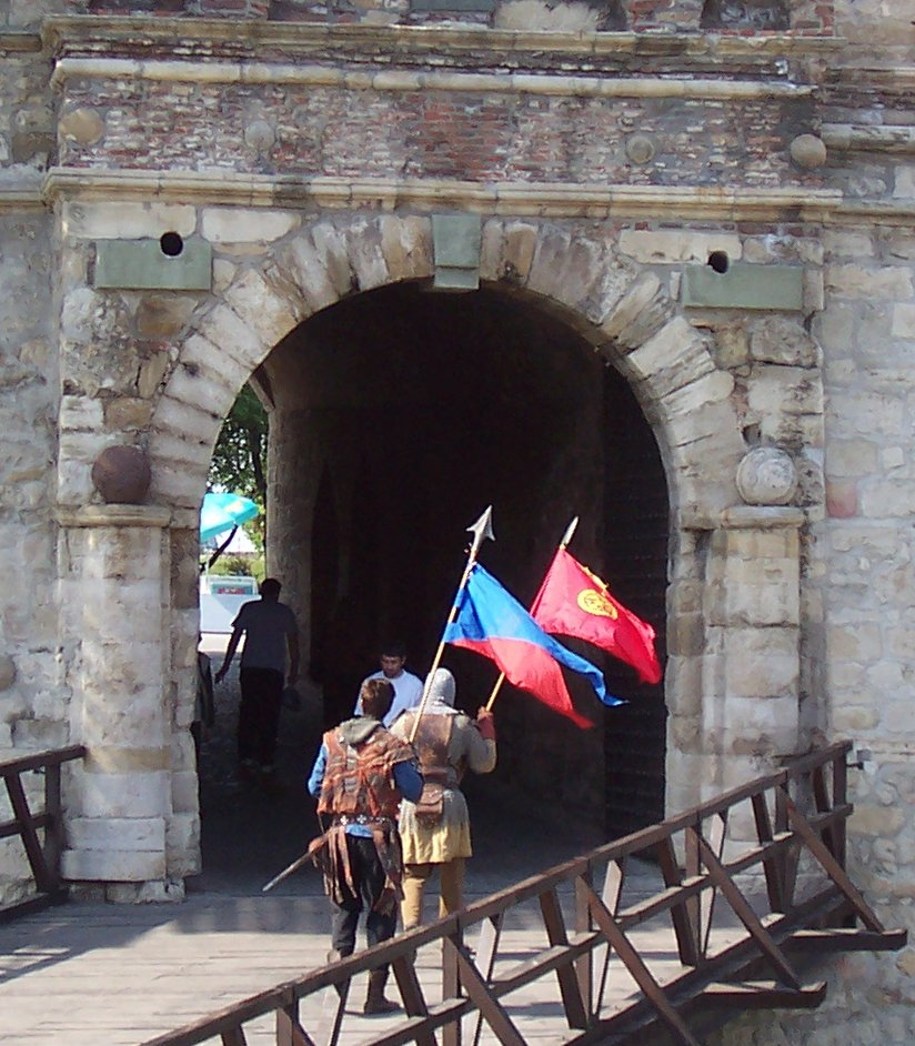 Two knights wearing reconstructed medieval flags of Serbia during 2007 Days of Belgrade.